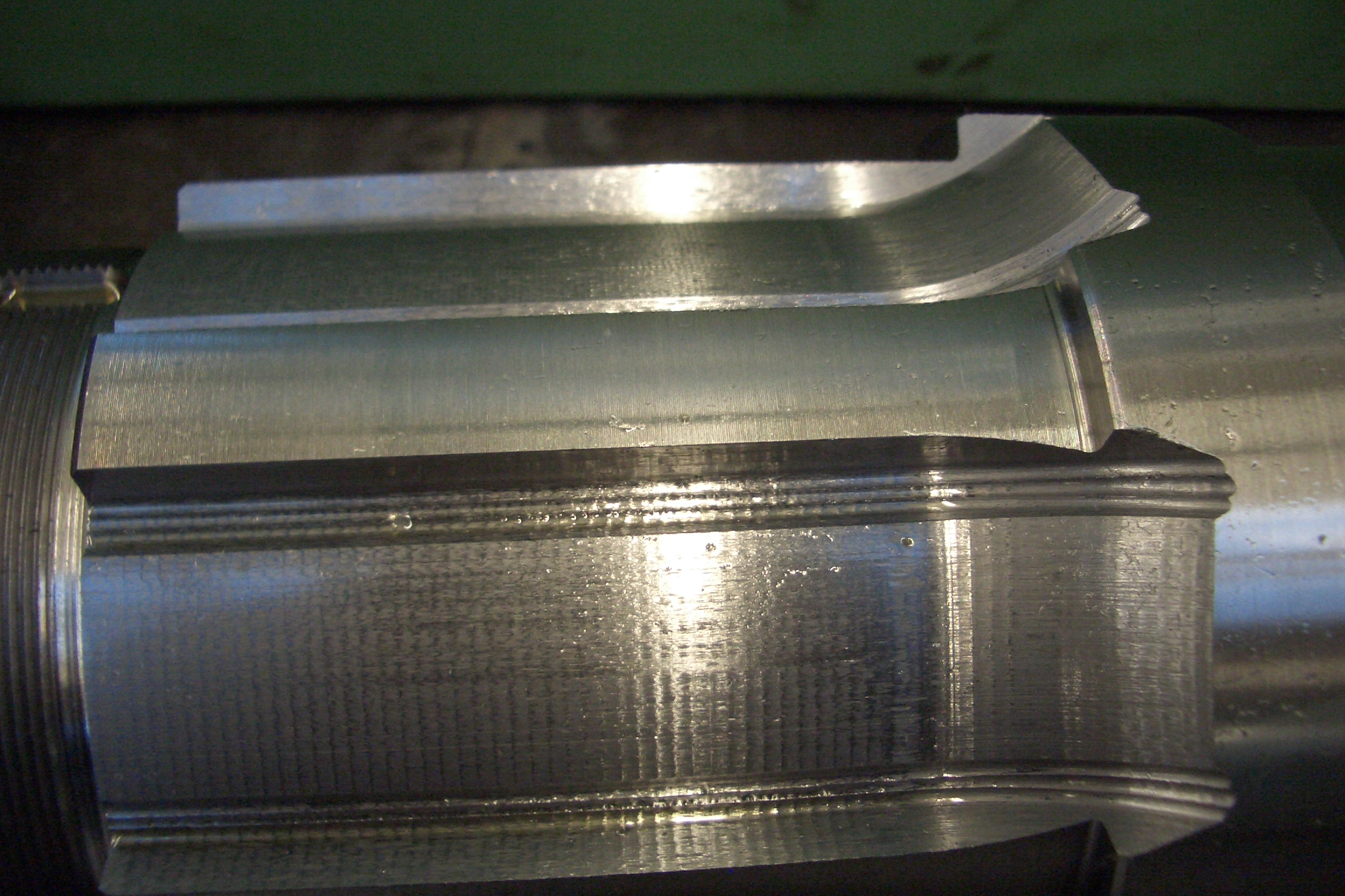 Close up of a straight sided spline DIN 5472